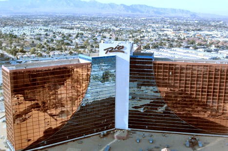 the rio in vegas